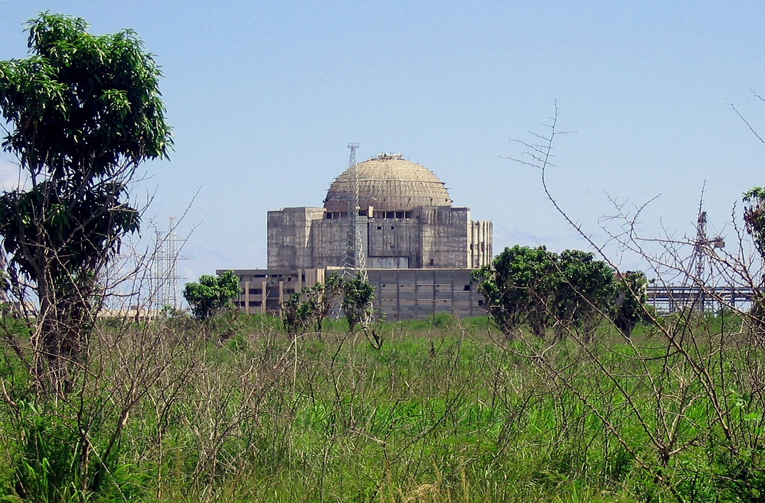 The Juragua Nuclear Power Plant in Cienfuegos, Cuba. This is an unfinished nuclear power plant in Cuba that was built with Soviet technology in 1983 but was construction halted in 1992 due to termination of Soviet economic aid to Cuba